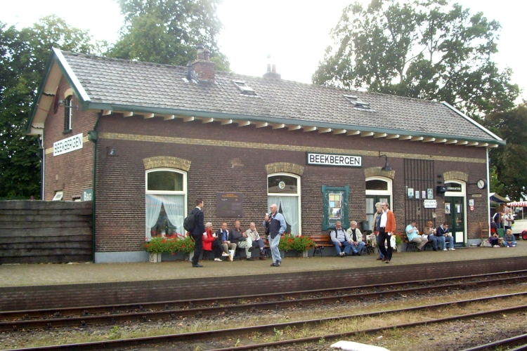 Station Beekbergen of the Veluwsche Stoomtrein Maatschappij